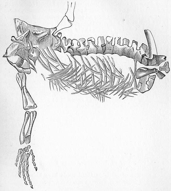 Historical drawing of incomplete fossil skeleton of Protorosaurus speneri (complete left forelimb, proximal right forelimb, pectoral girdle, vertebral column of the trunk region, pelvic elements, ribs, and gastrals – lateral view), an early archosauromorph reptile, from the Upper Permian of Central and Western Europe. The specimen shown in the drawing is the so-called Freiberg specimen (Freiberger Exemplar, FG 2666a/2004), recovered from the Copper Shale (Kupferschiefer) of Heidelberg near Schweina at the rim of the Thuringian Forest in the mid-19th century.[1] Original figure caption and notes accompanied with this drawing read as follows (Nicholson, 1876):[2] “Fig. 138. – Protorosaurus Speneri, Middle Permian, Thuringia, reduced in size. (After Von Meyer.) [copied from Dana].The type-species of the genus Protorosaurus is the P. Speneri (fig. 138) of the “Kupfer-schiefer” of Thuringia, but other allied species have been detected in the Middle Permian of Germany and the north of England. This Reptile attained a length of from three to four feet; and it has been generally referred to the group of the Lizards (Lacertilia), to which it is most nearly allied in its general structure, at the same time that it differs from all existing members of this group in the fact that its numerous conical and pointed teeth were implanted in distinct sockets in the jaws – this being a Crocodilian character. In other respects, however, Protorosaurus approximates closely to the living Monitors (Varanidæ); and the fact that the bodies of the vertebræ are slightly cupped or hollowed out at the ends would lead to the belief that the animal was aquatic in its habits. At the same time, the structure of the hind-limbs and their bony supports proves clearly that it must have also possessed the power of progression upon the land.”